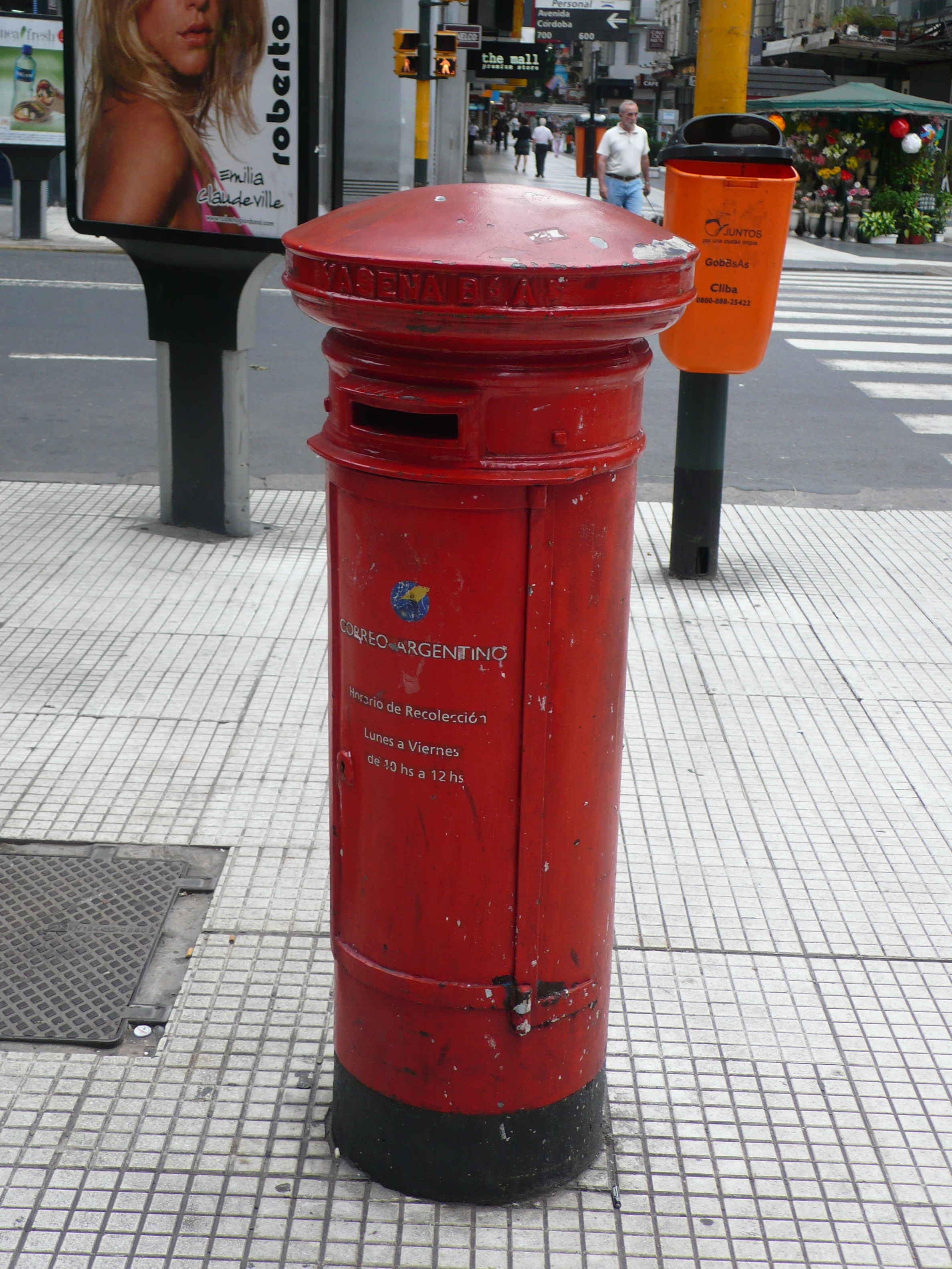 A typical British post box from the era of British ownership of Argentina's postal service (about 1880–1946)